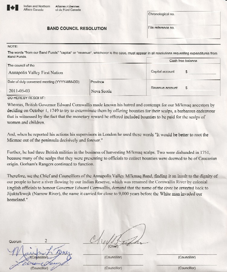 Text of the Annapolis Valley First Nation Band Council's resolution to revert the name of the river to Jijuktu'kwejk: Annapolis Valley First Nation Do Hereby Resolve: Whereas, British Governor Edward Cornwallis made known his hatred and contempt for our Mi’kmaq ancestors by deciding on October 1, 1749 to try to exterminate them by offering bounties for their scalps, a barbarous endeavour that is witnessed by the fact that the monetary reward he offered included to be paid for the scalps of women and children. And, when he reported his actions his [sic] supervisors in London he used the words “It would be better to root the Micmac out of the peninsula decisively and forever.” Further, he had three British militias in the business of harvesting Mi’kmaq scalps. Two were disbanded in 1751, because many of the scalps that they were presenting to officials to collect bounties were deemed to be of Caucasian origin. Gorham’s Rangers continued to function. Therefore, we the Chief and Councillors of the Annapolis Valley Mi’kmaq Band, finding it an insult to the dignity of our people to have a river flowing by our Indian Reserve, which was named the Cornwallis River by colonial English officials to honour Governor Edward Cornwallis, demand that the name of the river be reverted back to Jijuktu’kwejk (Narrow River), the name it carried for close to 9,000 years before the White man invaded our homeland.